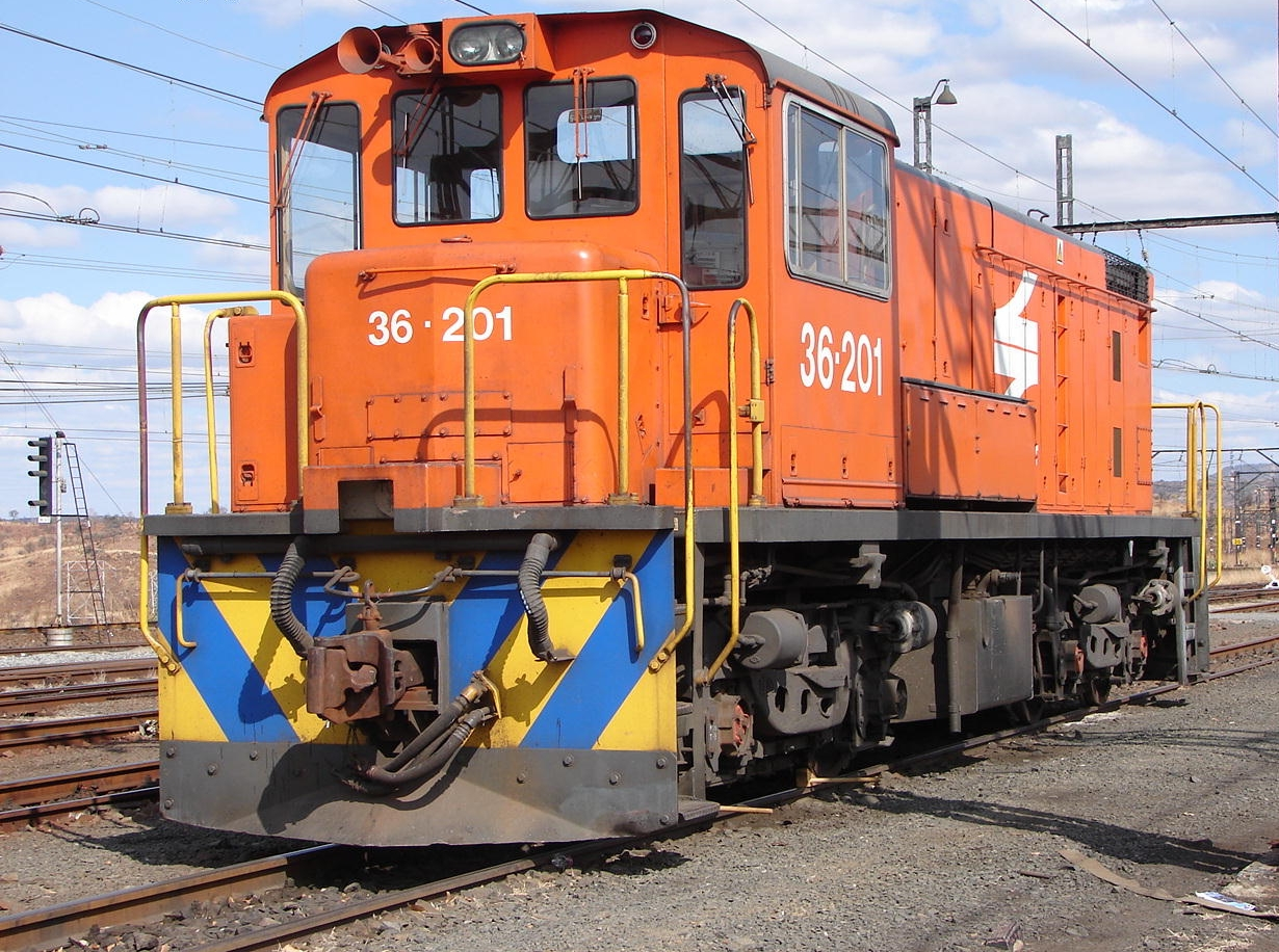 South African Class 36-200 36-201 Builder's Number: EMD 115-1 Type: EMD SW1002 Location: Ladysmith, Kwa-Zulu Natal